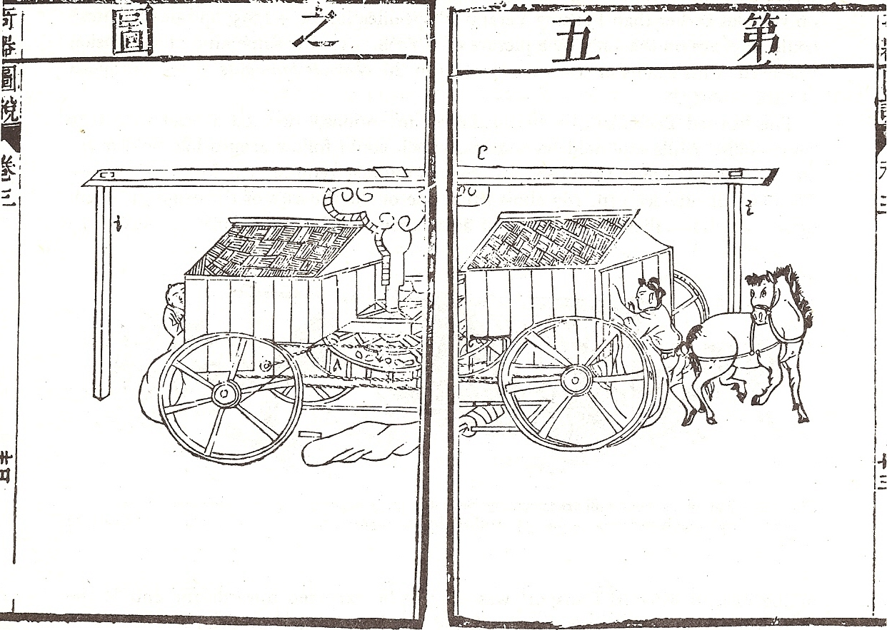 The field mill featured in the Yuanxi Qiqi Tushuo Luzui ("Collected Diagrams and Explanations of the Wonderful Machines of the Far West") of 1627, compiled and translated by the German Jesuit Johann Schreck (1576–1630) and Ming Dynasty Chinese author Wang Zheng (1571–1644), drawn after the 1607 treatise of Vittorio Zonca showing Pompeo Targone's field mill of 1580. However, long before it was used in the Huguenot Wars in Europe, it was actually invented in China at least by the Later Zhao (319–351) era when it was mentioned in around 340 AD. In an ironic twist, it reentered China as a 16th century European innovation; by that time it was completely forgotten in China.